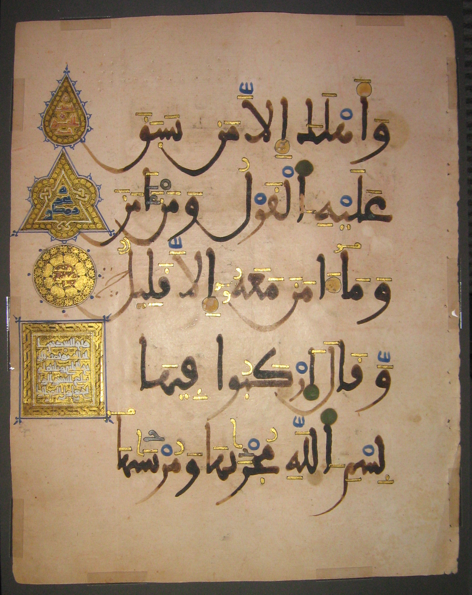 Holy Q'ran in Magrabi script written using ink, color and gold. Dated 12-th century or 13th